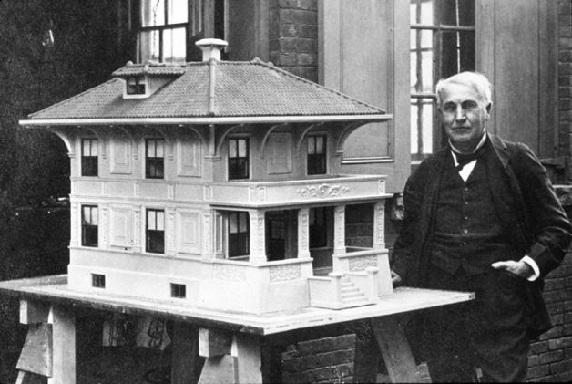 Thomas Edison showing a model of a concrete house